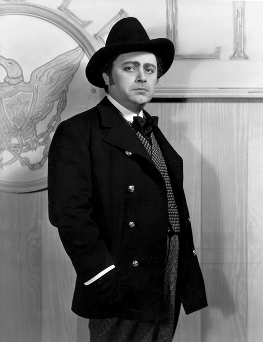 Photograph of J. Edward Bromberg in the Broadway production Gold Eagle Guy Caption reads as follows: J. Edward Bromberg dominates Gold Eagle Guy